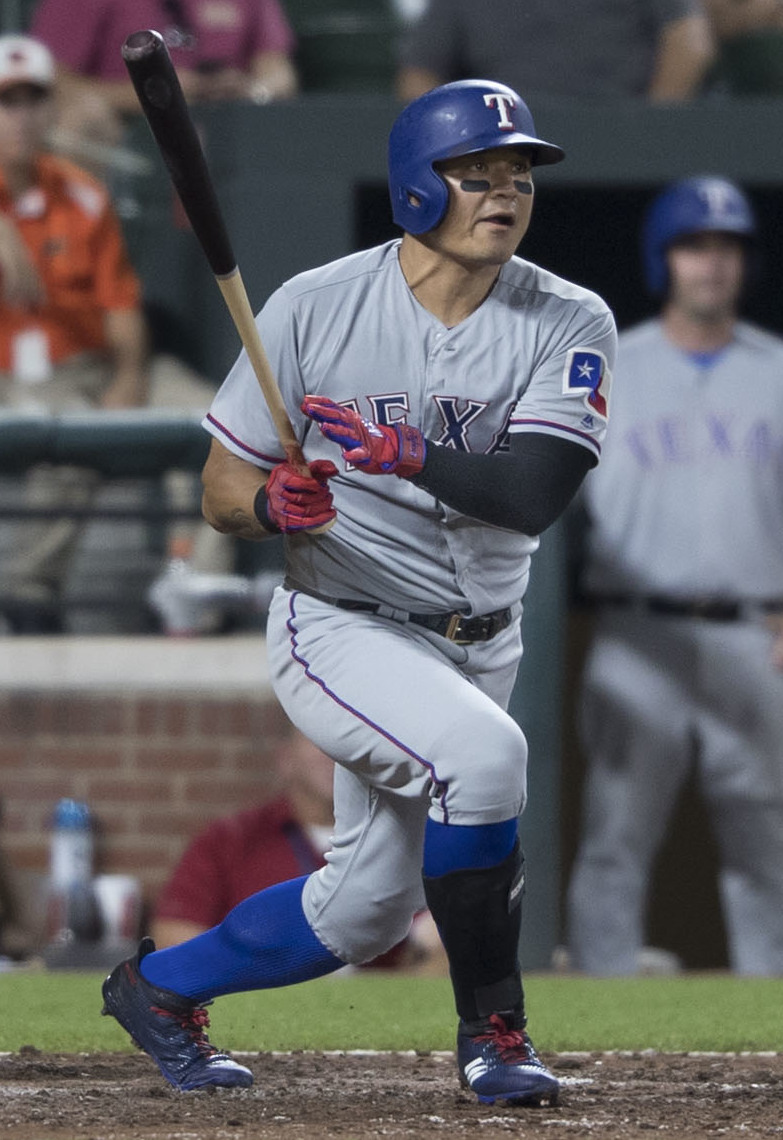 Rangers at Orioles 7/18/17